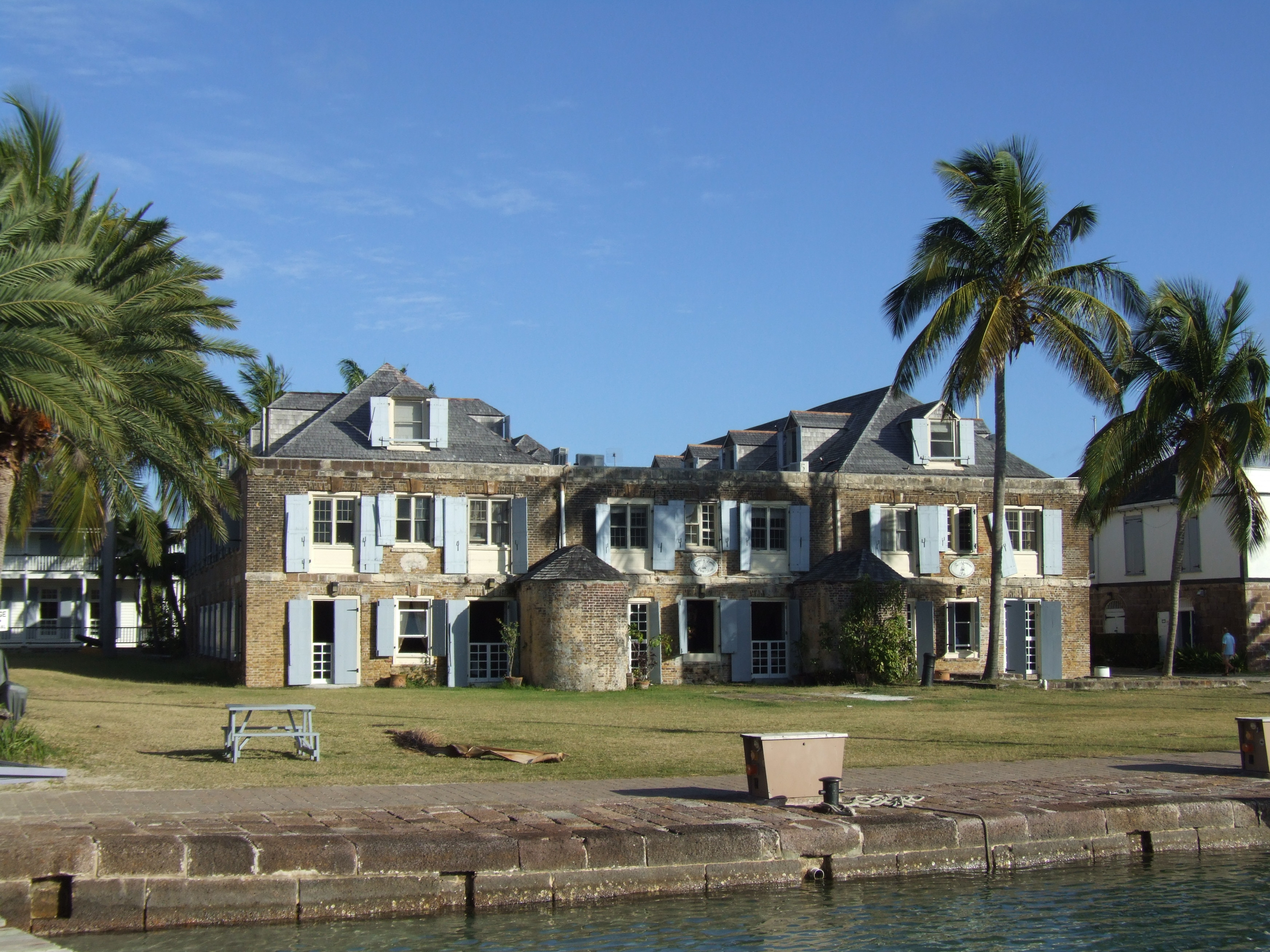 Nelson's Dockyard Antigua